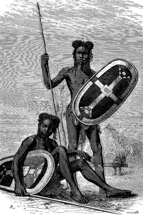 Niam-Niam warriors (« Au coeur de l'Afrique. trois ans de voyages et d'aventures dans les régions inexplorées de l'Afrique centrale», par M. le docteur George Schweinfurth (1868-1871), in Le Tour du Monde, 1874, vol. 28, p. 213